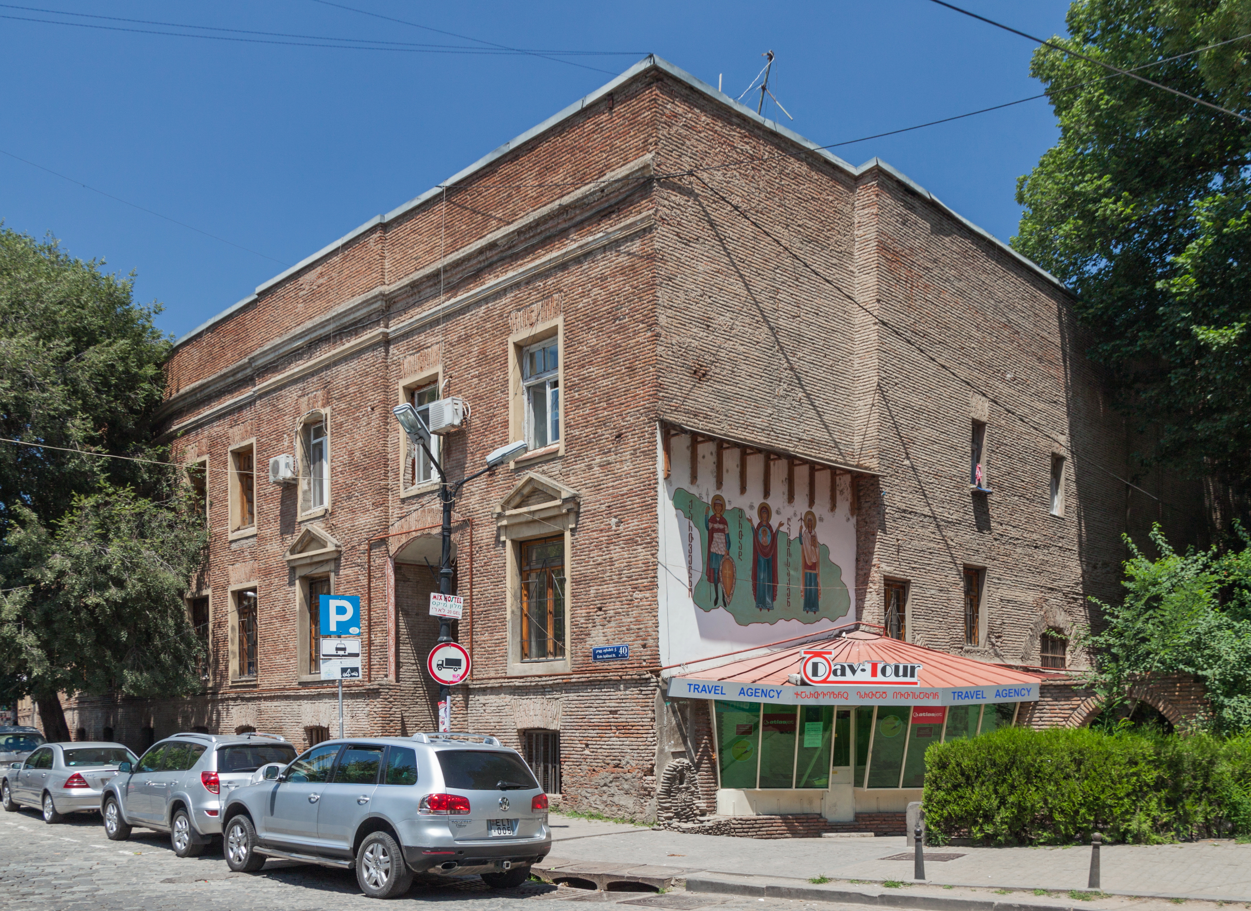 13/40 Sioni Street. Tbilisi, Georgia.